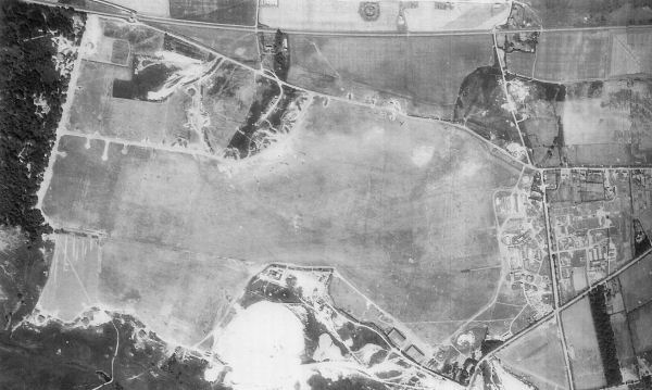 Aerial photograph of Warmwell Airfield, England.